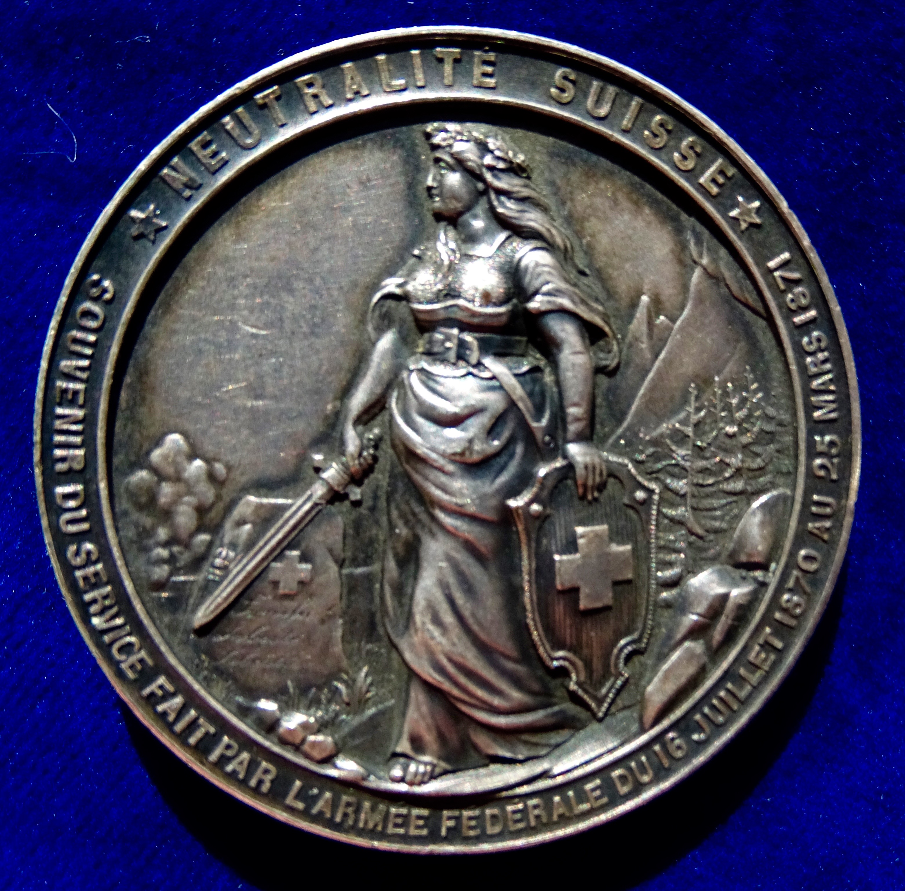 Silvered base metal, d. = 51 mm. Hans Herzog, Aarau, General, 1819 – 1894 Aarau, Switzerland Commemorating the defence of Swiss neutrality during the Franco-Prussian War 1870 - 1871 Uniformed portrait l., around: "GENERAL HANS HERZOG"/ Helvetia standing l. holding sword, and Swiss shield, 3 lines on a rock with the Swiss Cross: "Freiheit (in Gothic script) Liberté Liberta (in Latin script)". Around: "* NEUTRALITE SUISSE * SOUVENIR DU SERVICE FAIT PAR L´ARMÉE FÉDÉRALE DU 16 JUILLET 1870 AU 25 MARS 1871 *". Wurzbach 3688; Forrer V, p. 108. Medallist: C. (Charles Jean) Richard, Engraver, 1832 Geneva - Condition: EXTREMELY FINE, old patina.